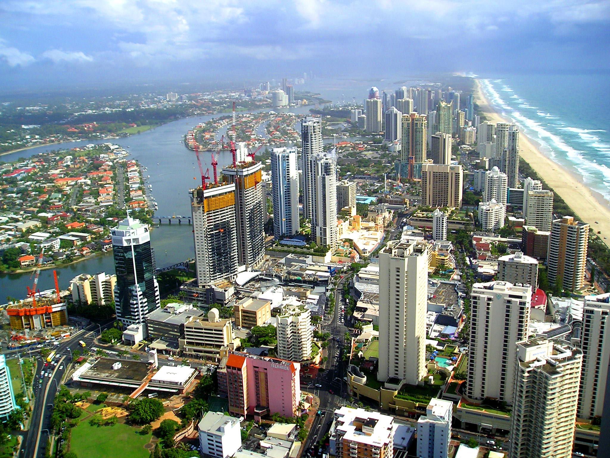 View from the 74th floor of Q1 looking north across Surfers Paradise. Taken by myself on January 10, 2006.